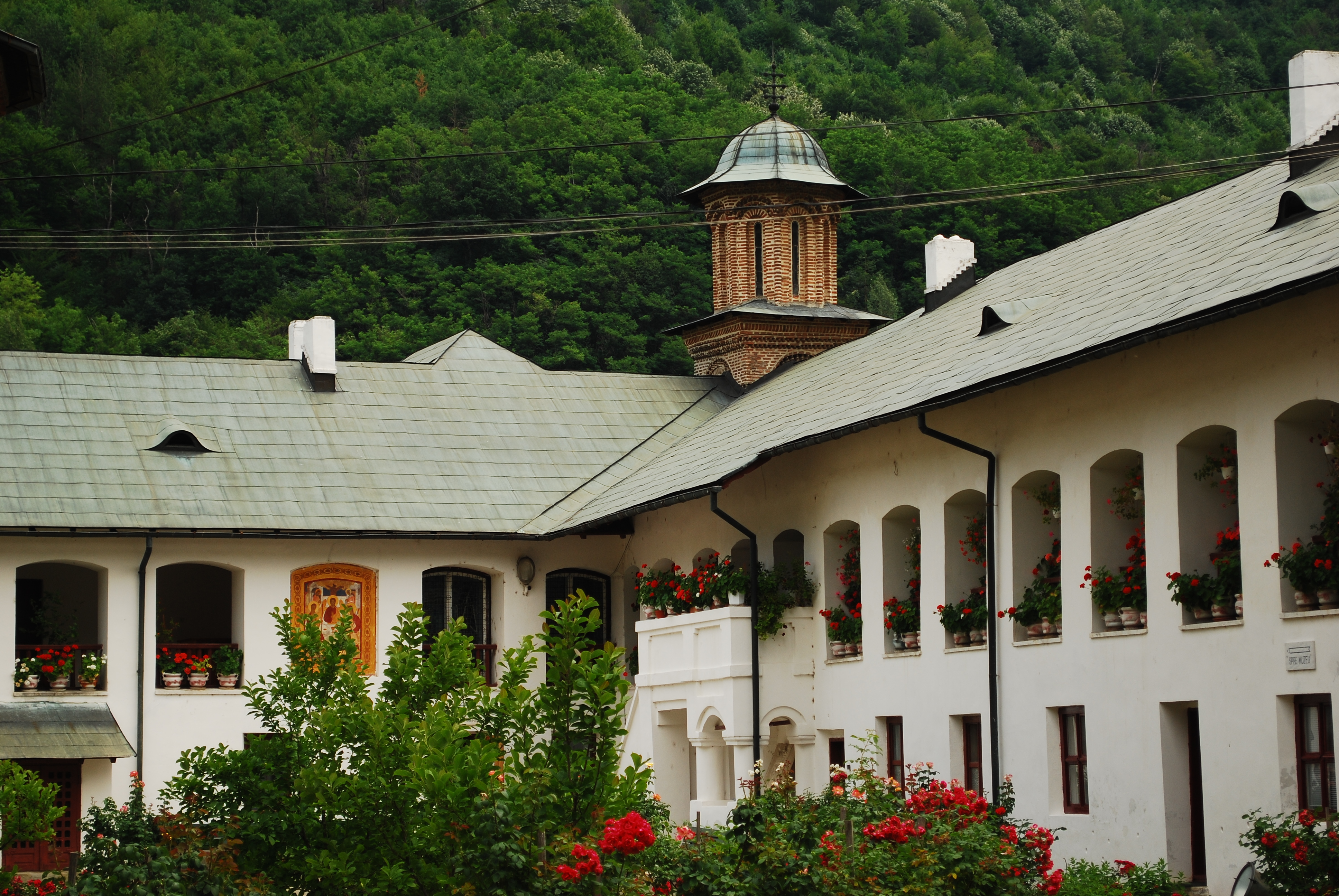 Chapel of the Dormition, in the South-East corner of the Cozia Monastery, Căciulata, Călimăneşti town, Vâlcea County, Romania 03